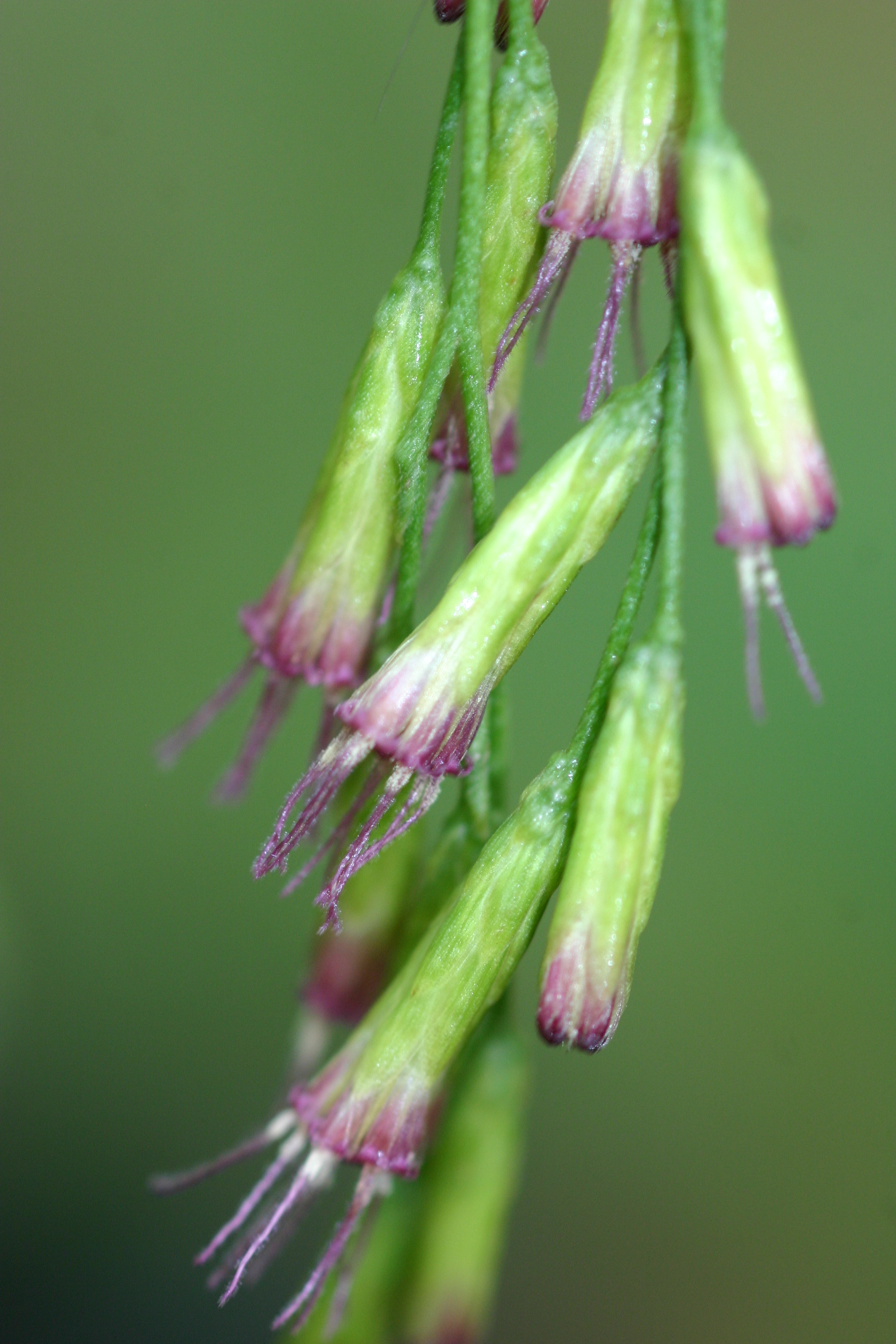 Flower Eupatorium buniifolium